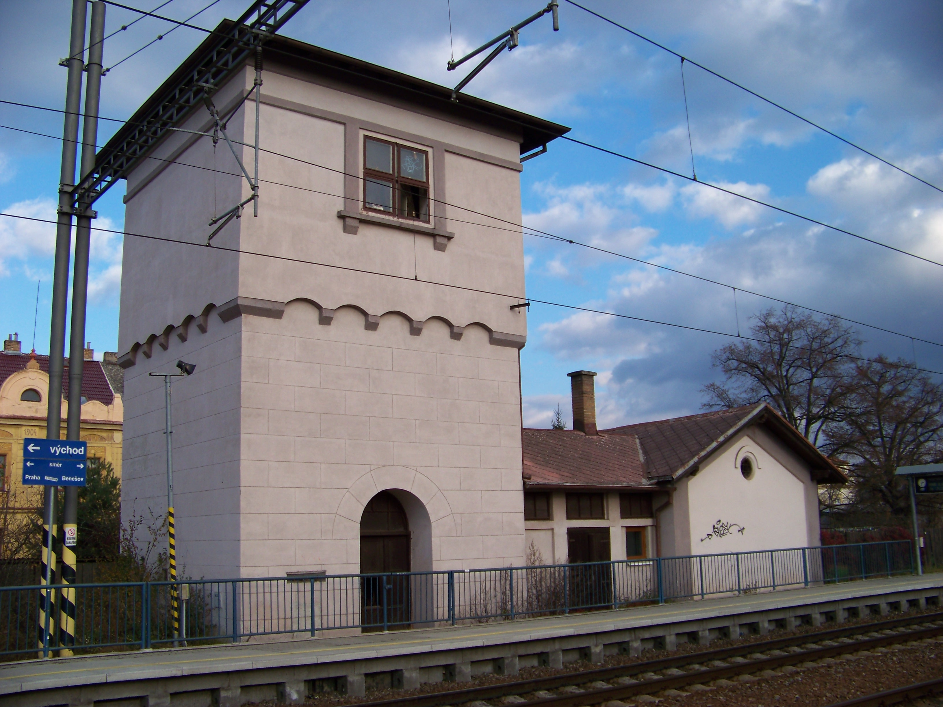 Prague-Uhříněves. The train station "Praha-Uhříněves". - Google Maps - Google Earth